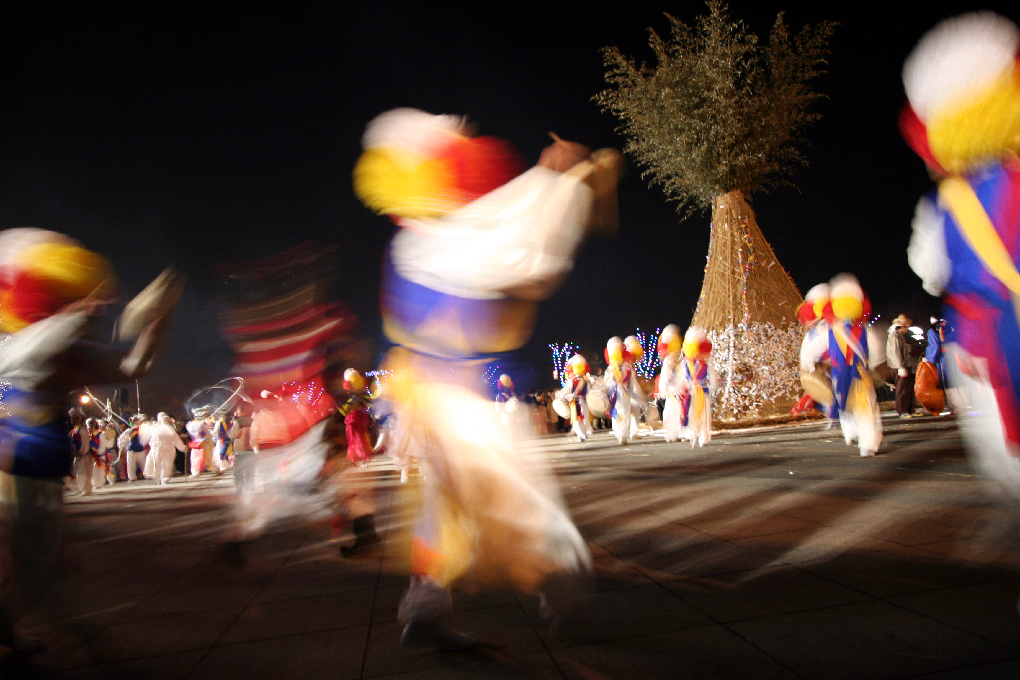 Dancers at the Full Moon Festival, Namsan's National Theatre. An incredible energy in the air...